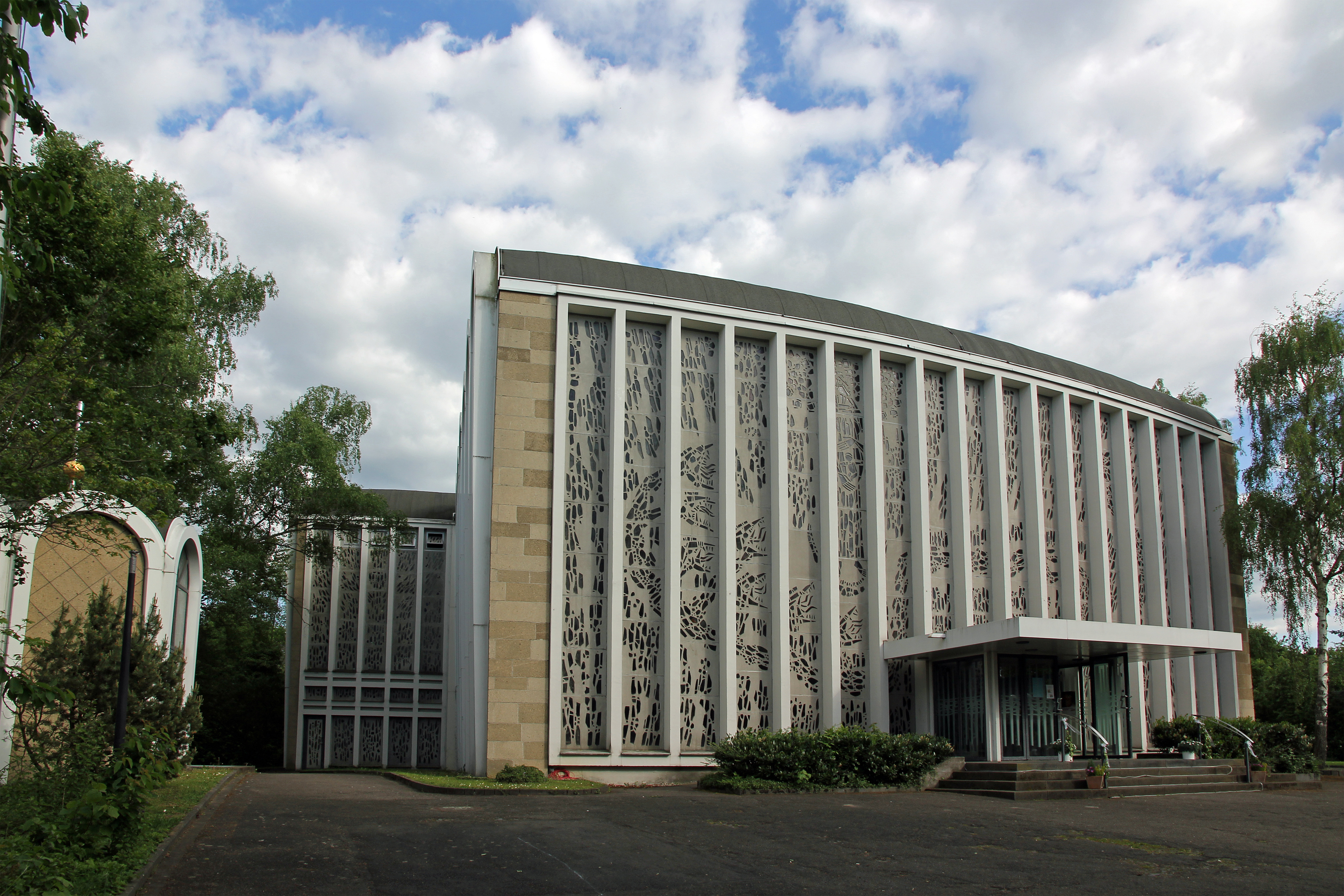 St. Mary’s Assumption church in Koblenz